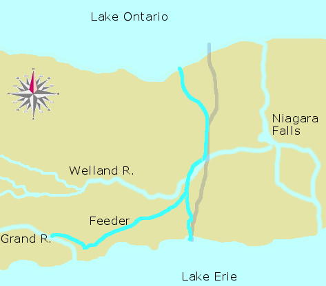 Approximate map of the location of the First Welland Canal (enwiki). The present-day canal marked in pale bluish-grey. First Canal timeline: Image:Welland Canal - First Canal Stage One.png (original plan) Image:Welland Canal - First Canal Feeder.png (1829) Image:Welland Canal - First Canal Port Colborne.png (1833) Created by user:Qviri 22.03.2006 based on various sources including scanned materials, screenshots from Google Earth, blood and tears, etc. Multi-layer source available on request.